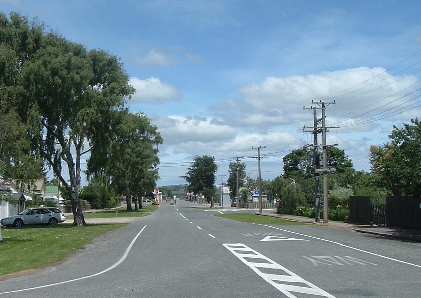 Wyndham, New Zealand. View along Balaclava Street, looking south from Raglan Street.